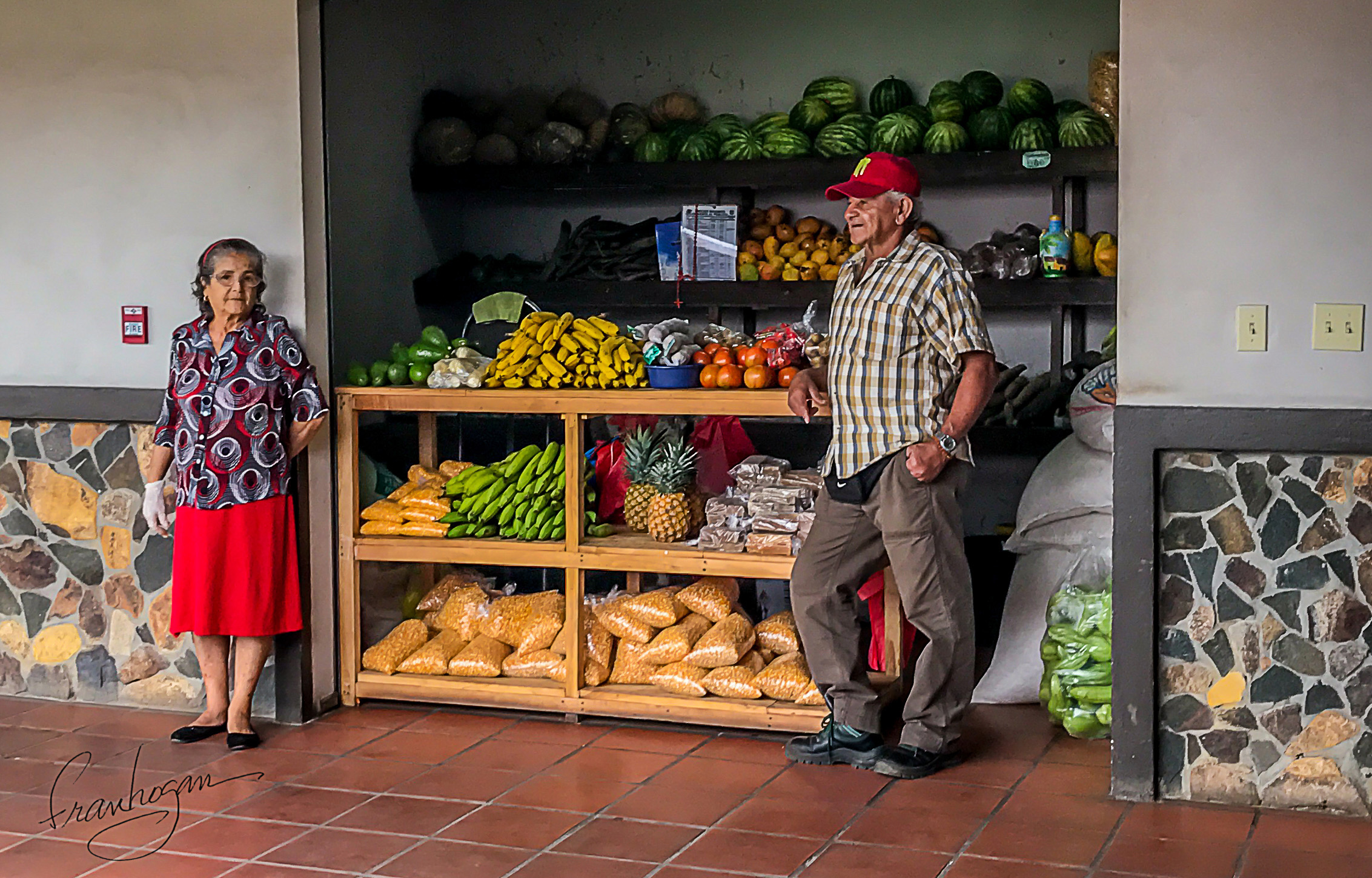 The public Market in Boquete, Panama, with local, organic, fresh produce.